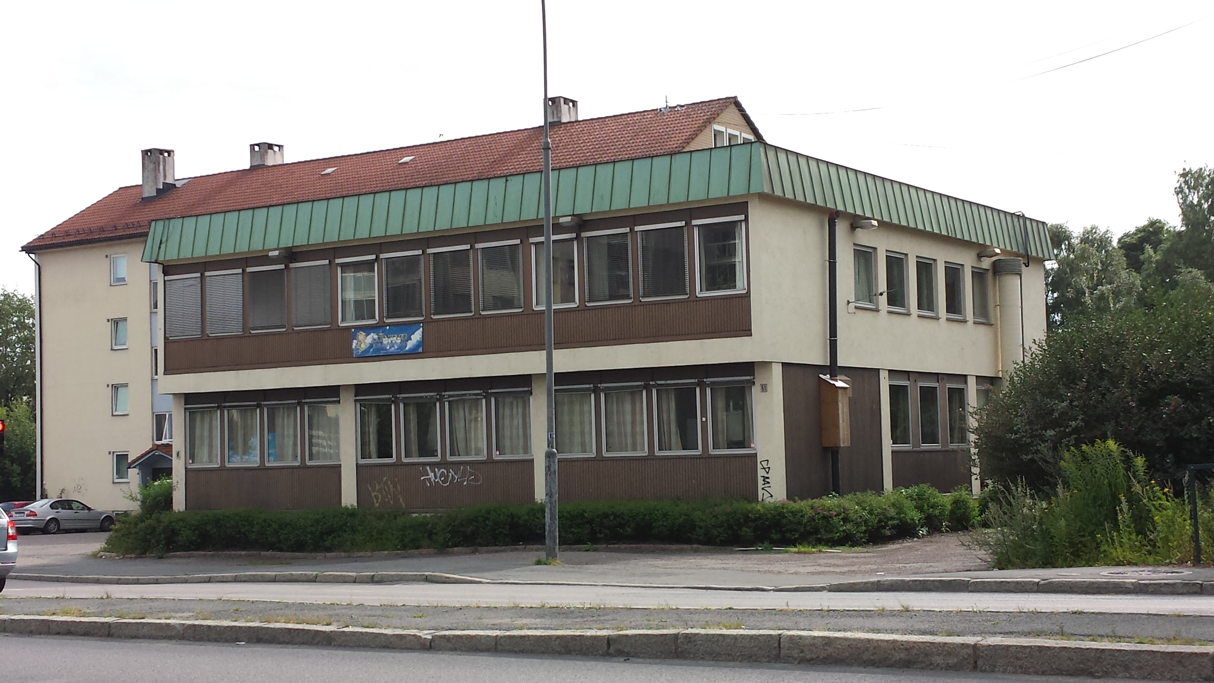 A picture of the old headquarters of Scientologikirken in Grünerløkka in Oslo. The headquarters have since been vacated, and the building has been demolished to provide for a housing development project.